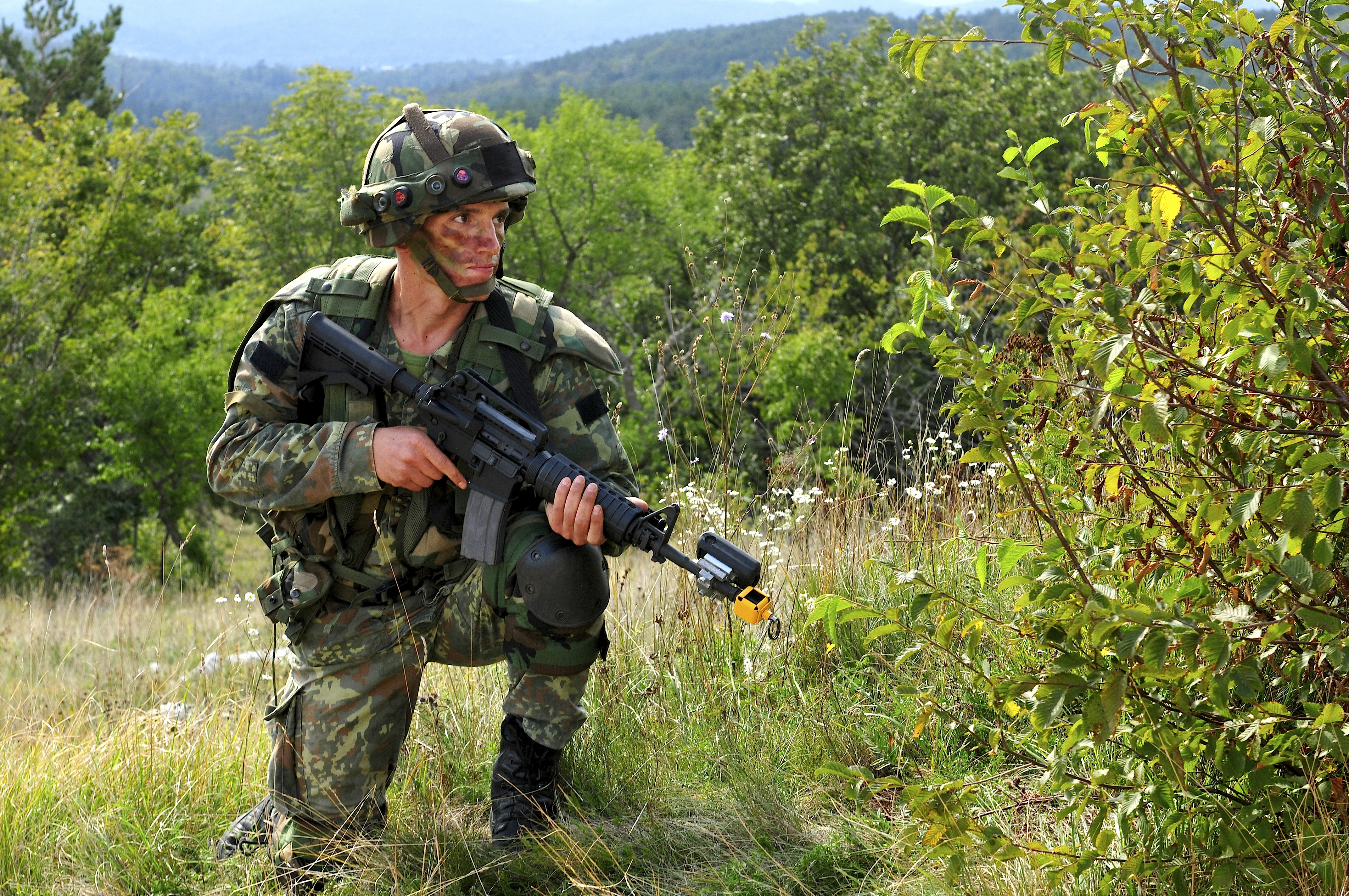 POSTOJNA, Slovenian - Slovenia was the host to Albanian and British Soldiers for situational training exercise drills as part of the multi-national exercise Immediate Response 15 near Postojna, Slovenia September 13, 2015. Immediate Response 15 is a multinational, brigade-level exercise utilizing computer-assisted simulations and field training exercises spanning two countries. The exercises and simulations are built upon a scenario designed to enhance regional stability, strengthen partner capacity and improve interoperability between partner nations. Immediate Response is an annual exercise, and the fifth iteration is scheduled to run Sept. 9-22, 2015. (U.S. Army photo by Sgt. 1st Class Walter E. van Ochten)